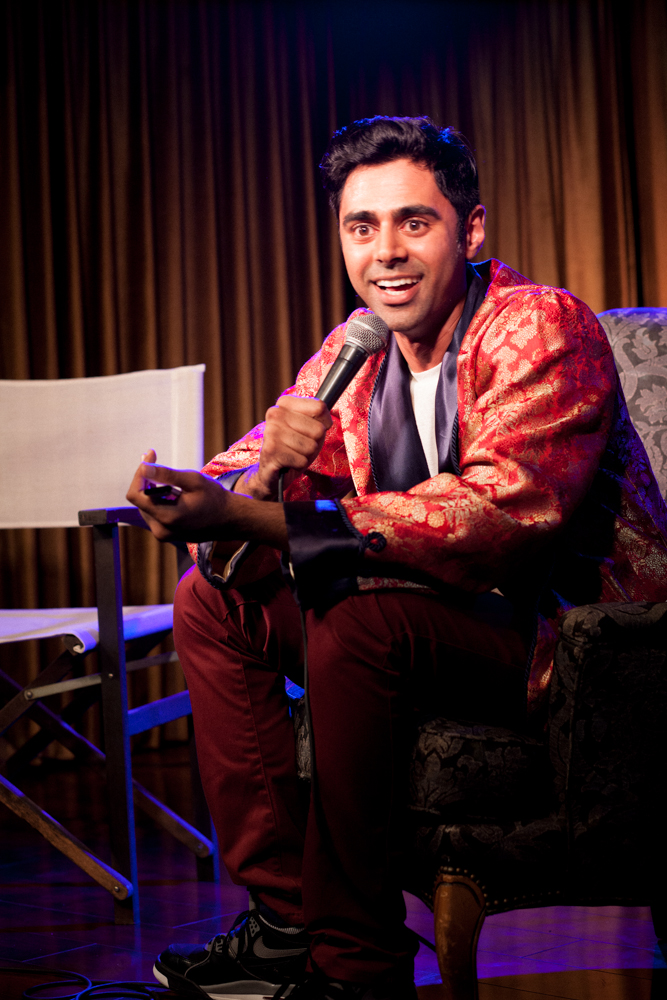 The Goatface Experience Photography by Mandee Johnson Presented by CleftClips August 14, 2013 The Virgil | Los Angeles, CA